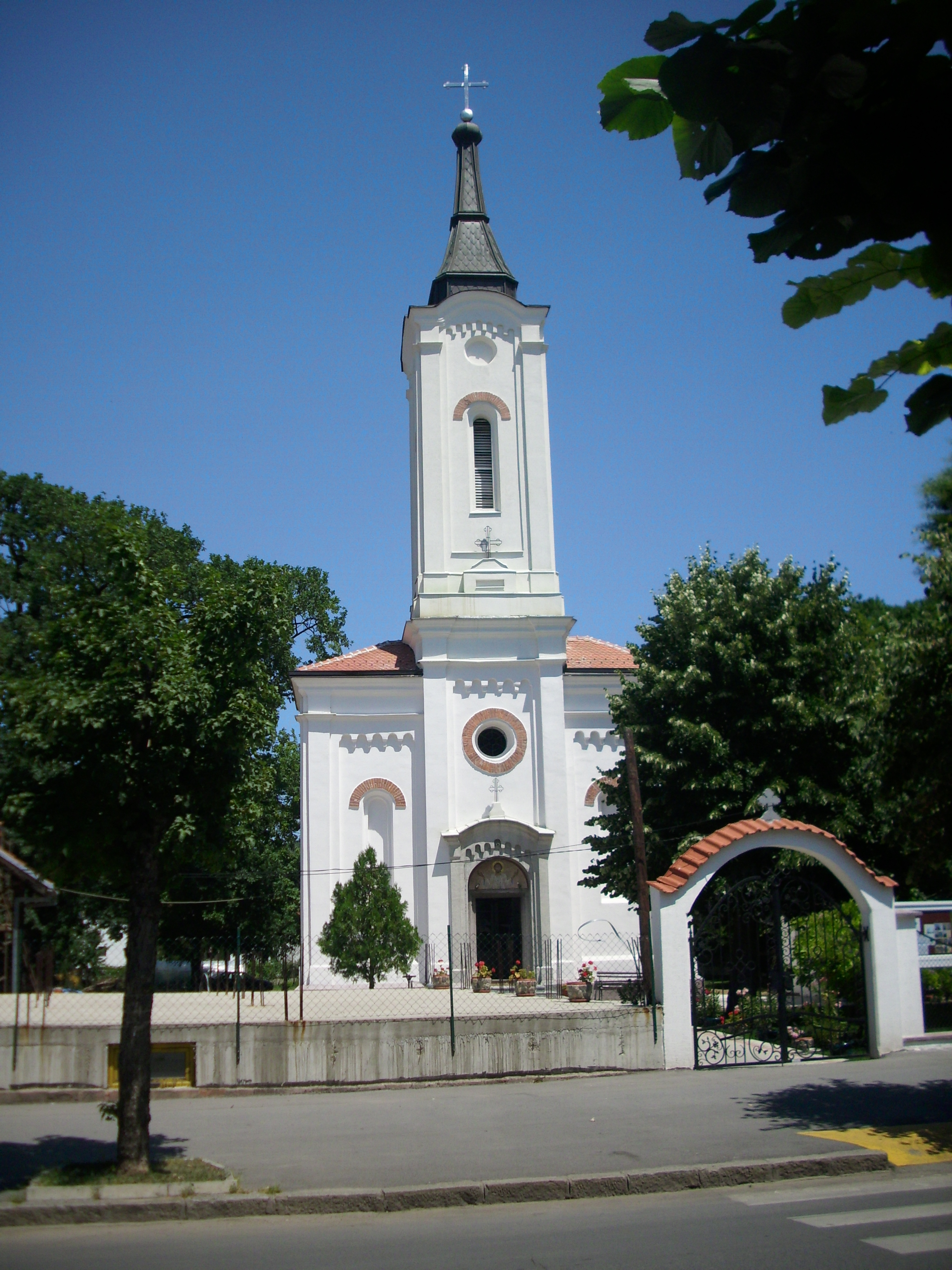 Churc "Vaznesenja Gospodnjeg" in Petrovac na Mlavi